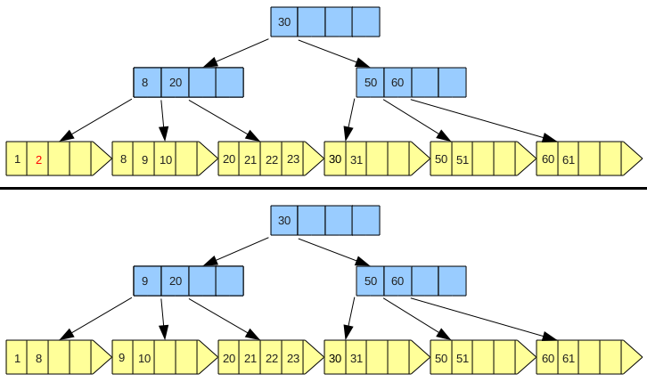 Remotion from B+ tree